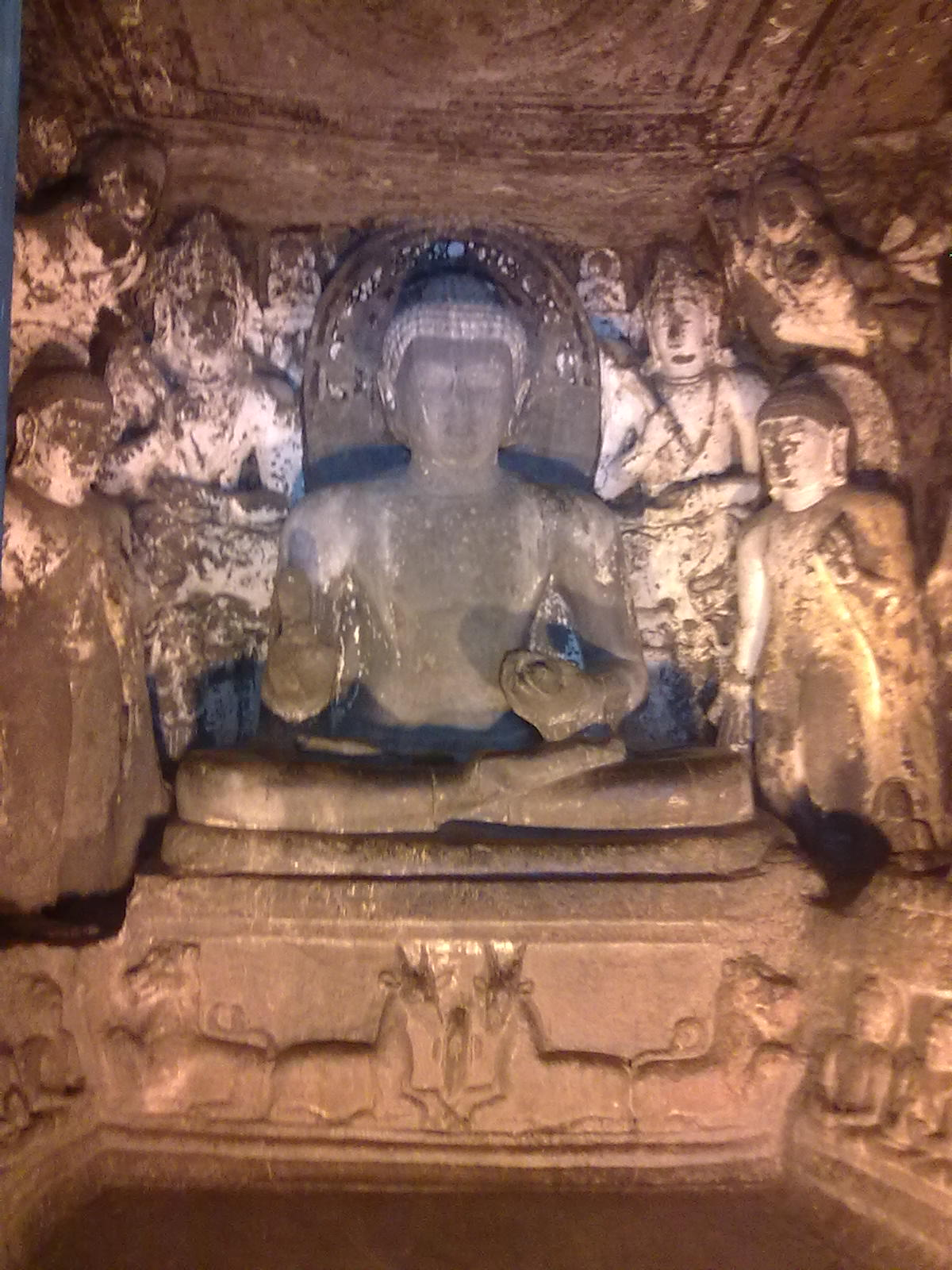 Ajanta Caves